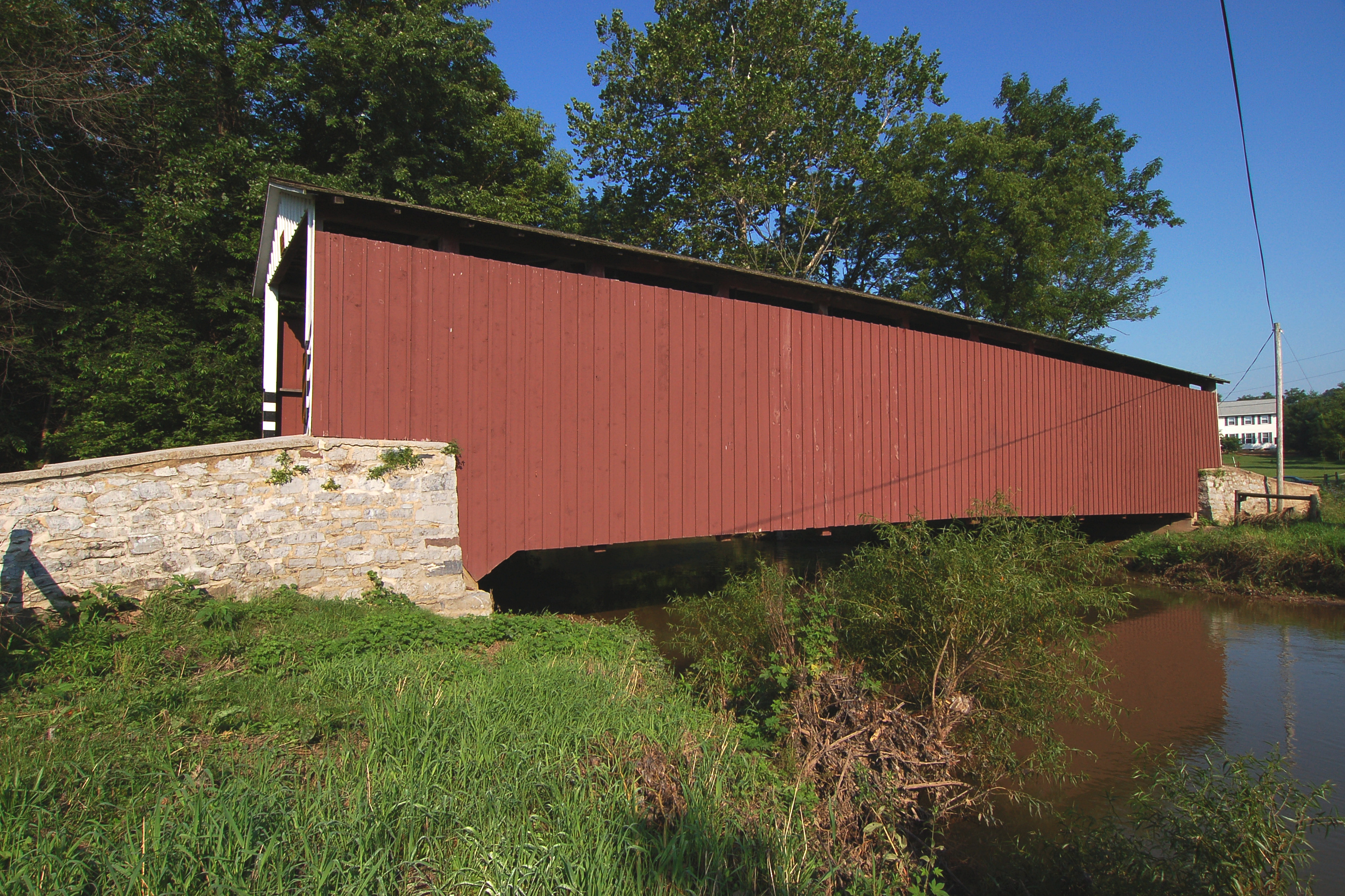 A photograph of side of the Kauffman's Distillery Covered Bridge located in Lancaster County, Pennsylvania.